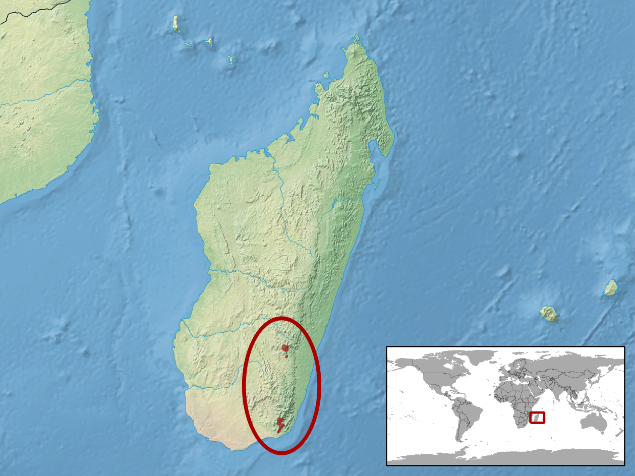 geographic distribution of Lygodactylus montanus (Native: Madagascar)